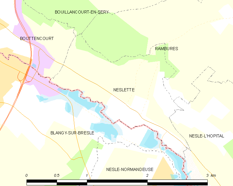 Map of French municipality Neslette